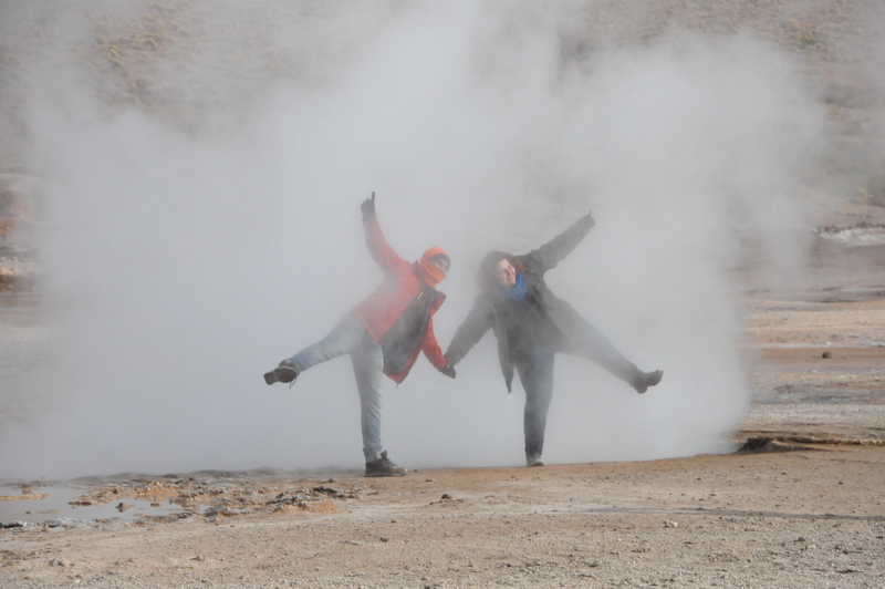 Safety in Tatio geyser field, Antofagasta Region, Chile